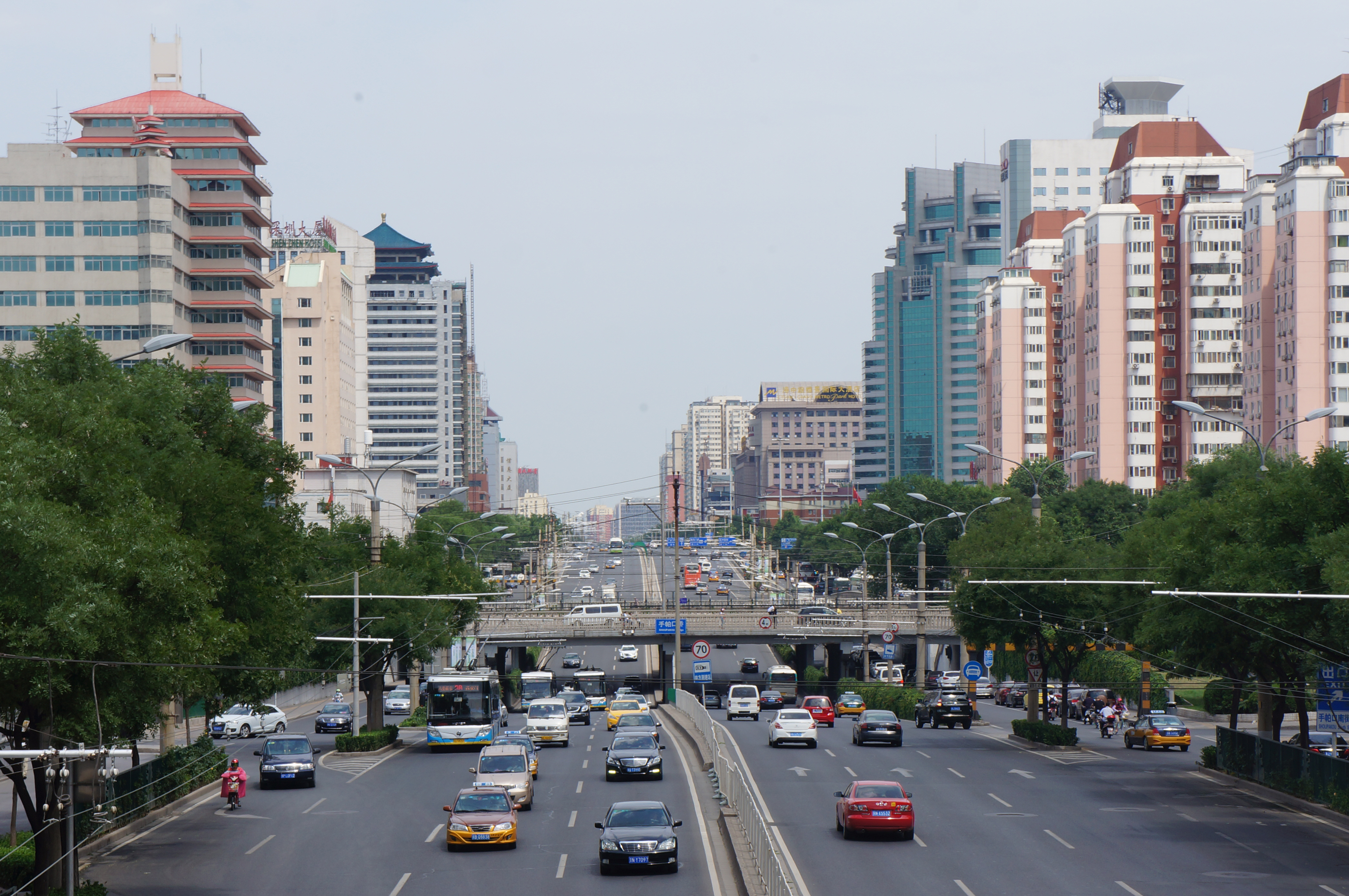 201606̟ Shoupakou Bridge